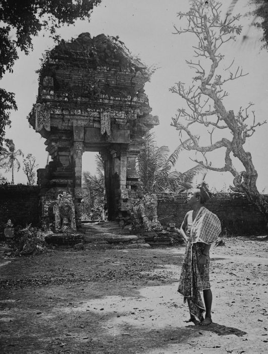 A man posing before the ruins of a Balinese temple in Sukawati, Bali.